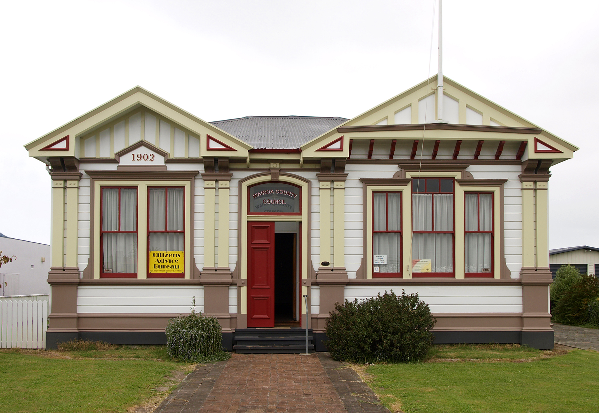 Wairoa County Council Building 1902, Wairoa, Hawke's Bay Region, New Zealand. Also a Citizen's Advice Bureau.